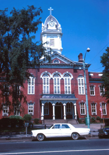 Union County Courthouse (in 1969) — in Monroe, Union County, North Carolina. A Courthouse on the National Register of Historic Places. Object location34° 58′ 58.65″ N, 80° 32′ 59.65″ W